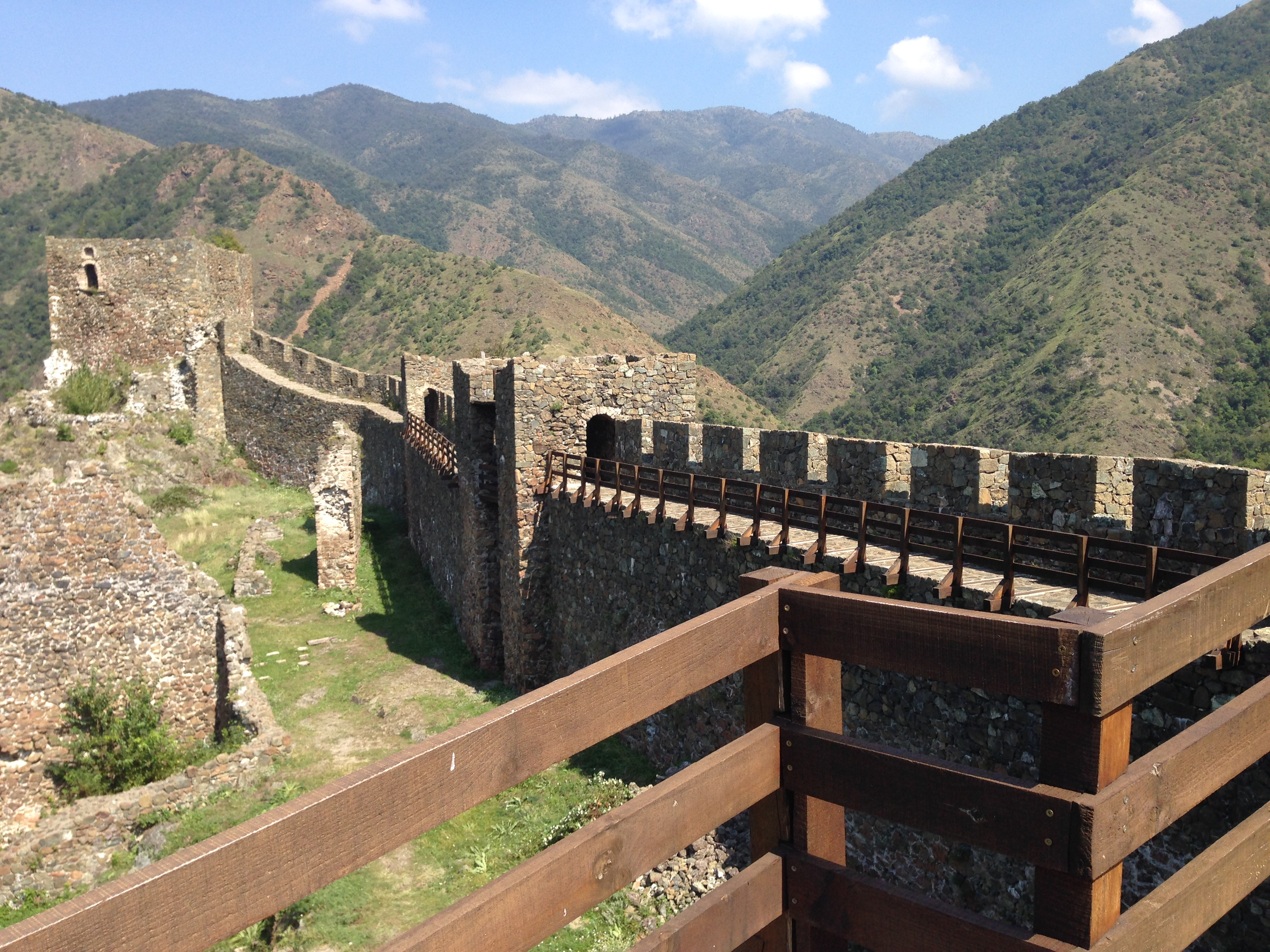 Maglič is a 13th-century castle about 20 km south of Kraljevo, Serbia.